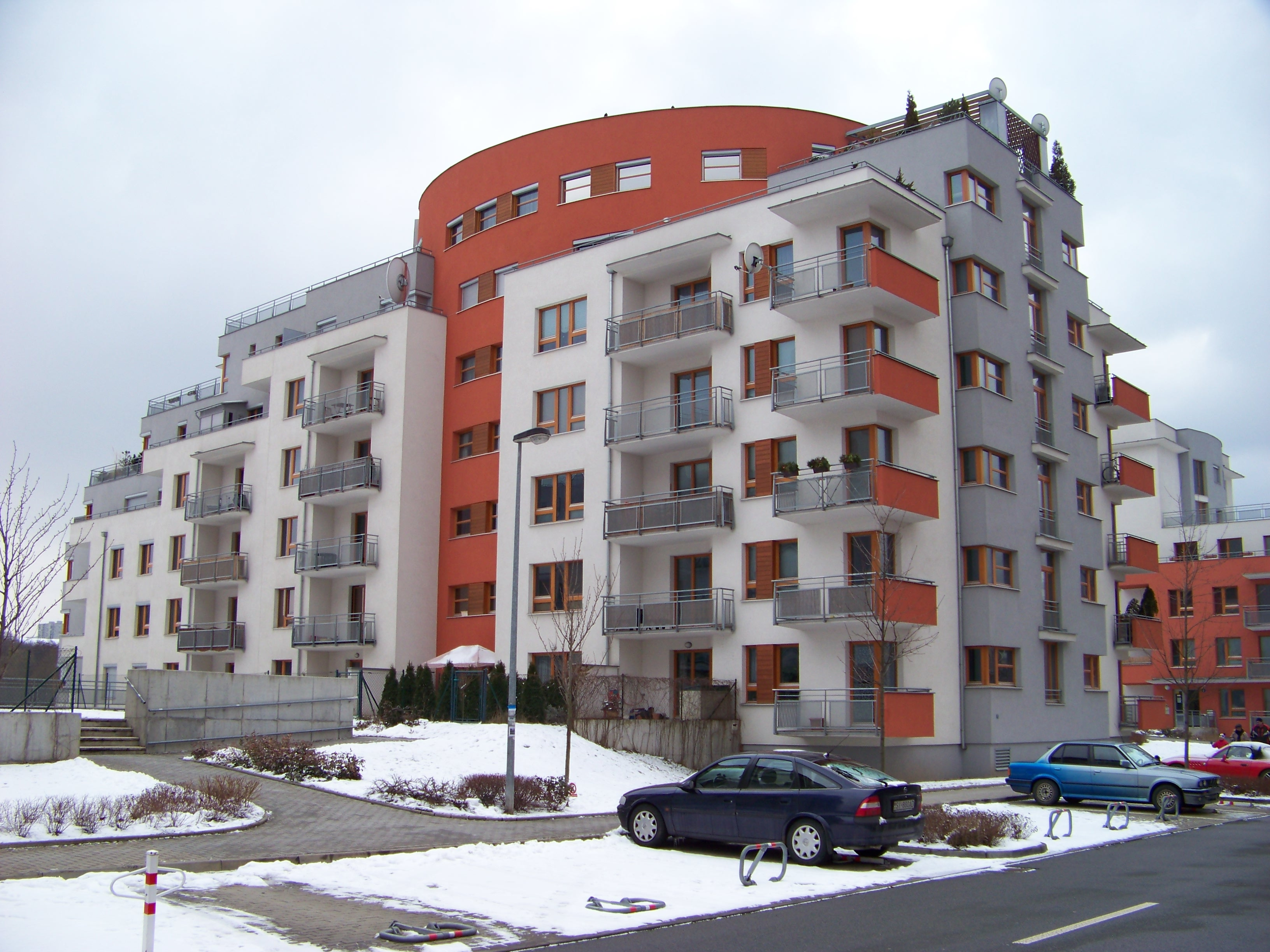 Prague-Záběhlice, the Czech Republic. Nové Zahradní Město, Mattioliho 3274/3. - OpenStreetMap(Info)